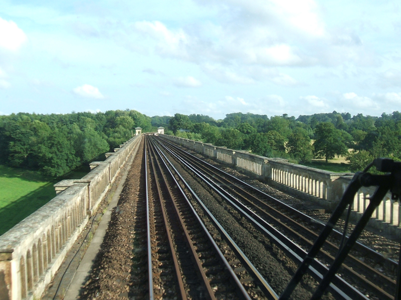 Travelling southwards along Ouse Valley viaduct